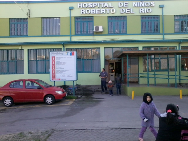 Children Hospital Roberto del Rio.